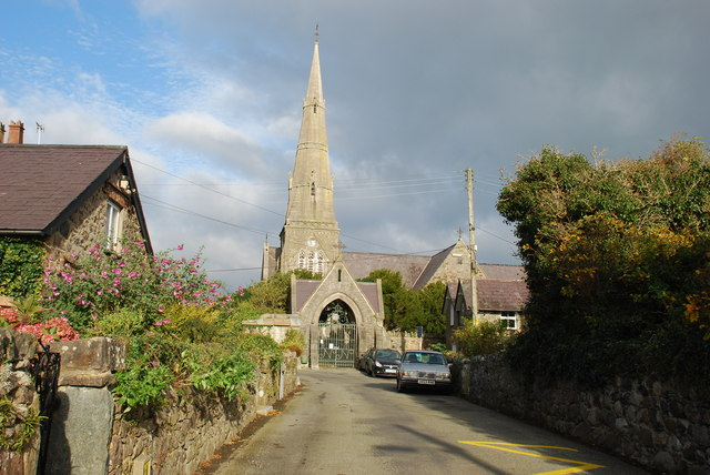 Canol Pentref Llandwrog Village Centre Looking towards the centre of this Victorian estate village along the road from Plas Glynllifon.